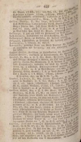 Johann Georg Knie Geographische Beschreibung von Schlesien preußischen Antheils, der Grafschaft Glatz und der preußischen Markgrafschaft Ober-Lausitz. Abt.2. Th.3 page 422